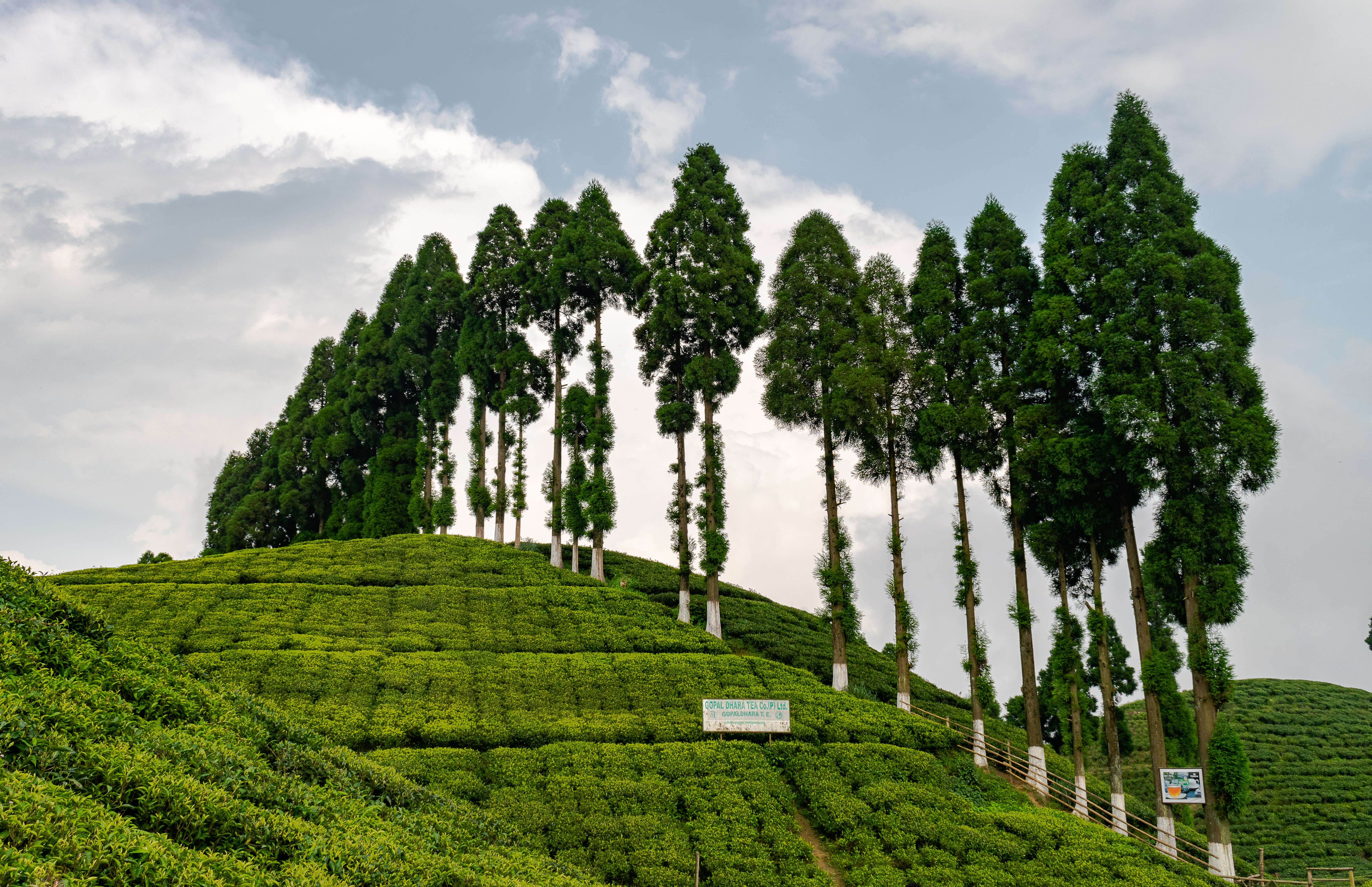 A scenic beauty of Mountain Curves of Gopal Dhara Tea Estate